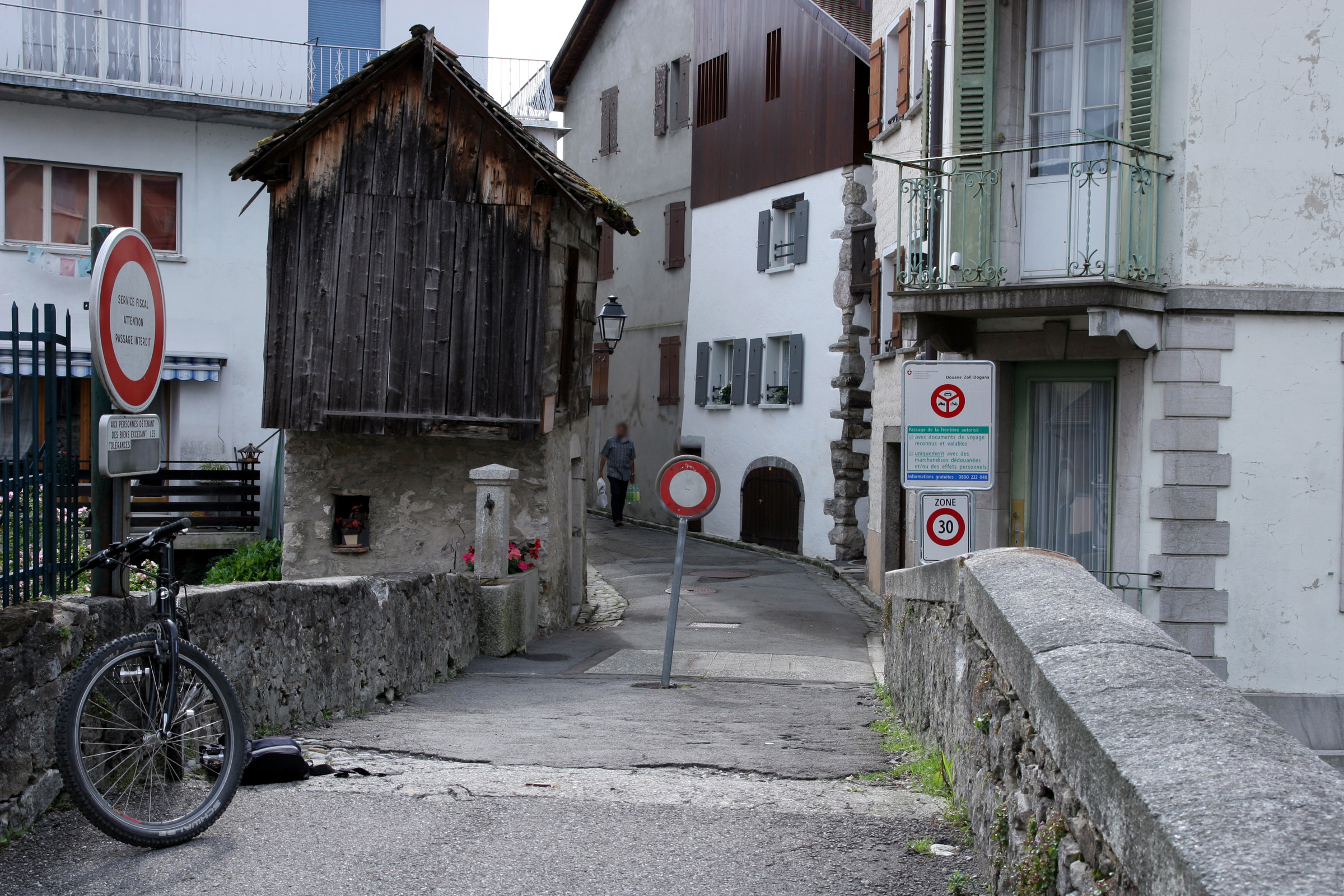 The green line in Saint Gingolph.